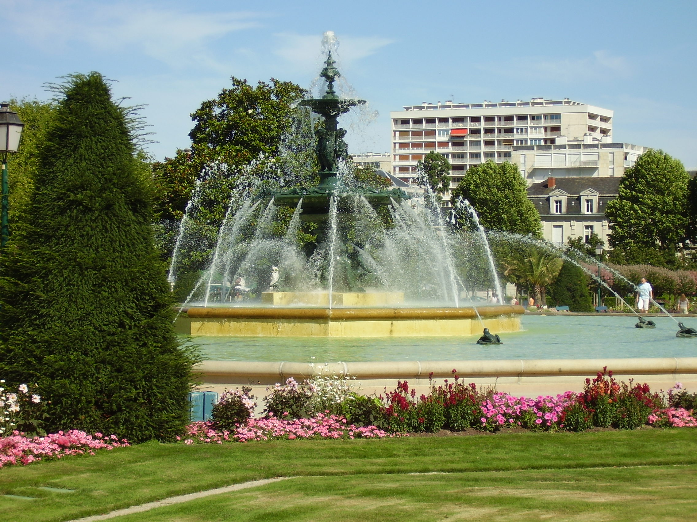 The Mail (mall, as a promenade) fountain, Angers, Maine-et-Loire, France.